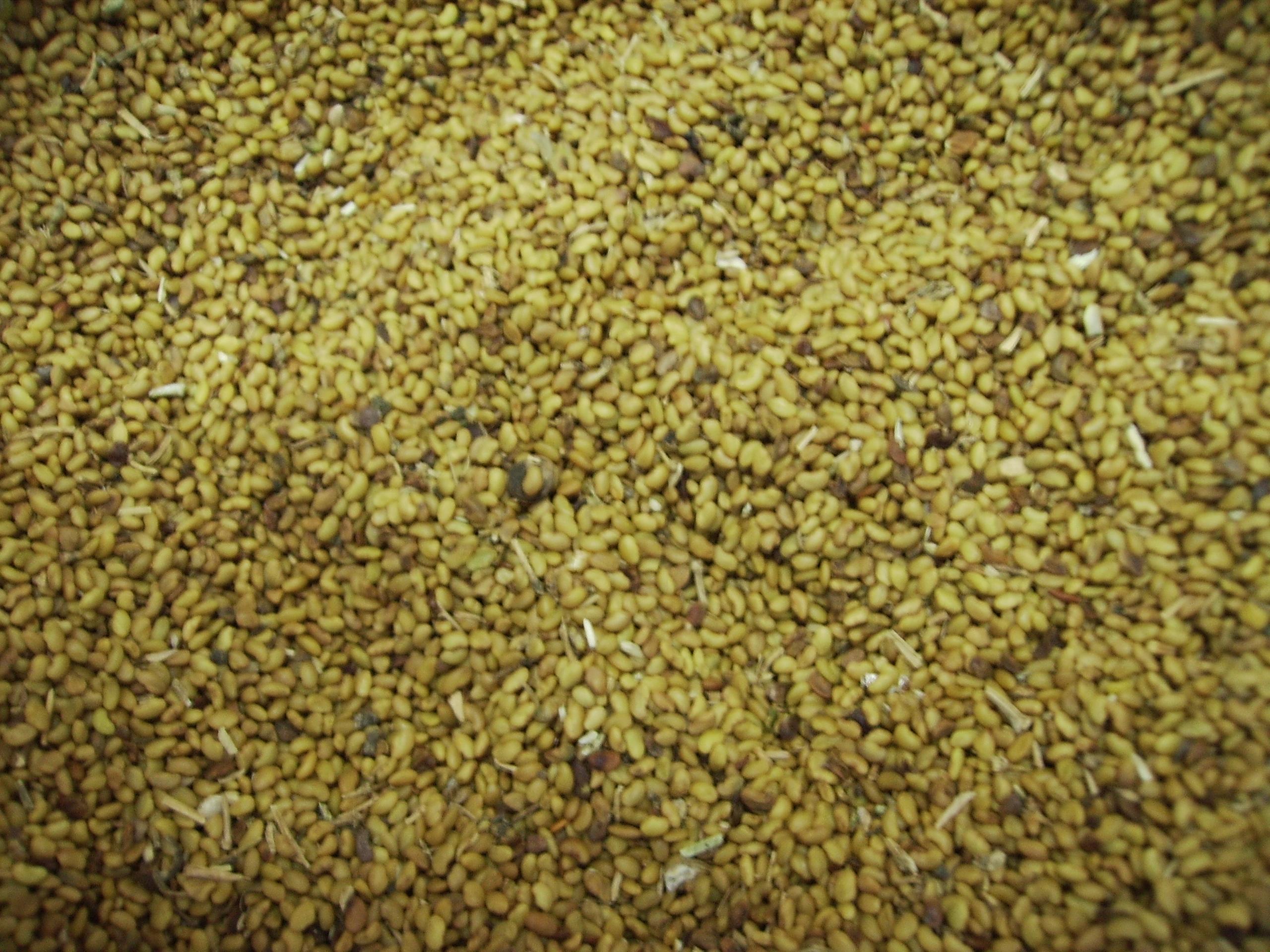 Image:Alfalfa seeds.jpg My own work .october 6, 2006 Alfalfa seeds from Manresa, Cooperativa de Salelles, Catalonia